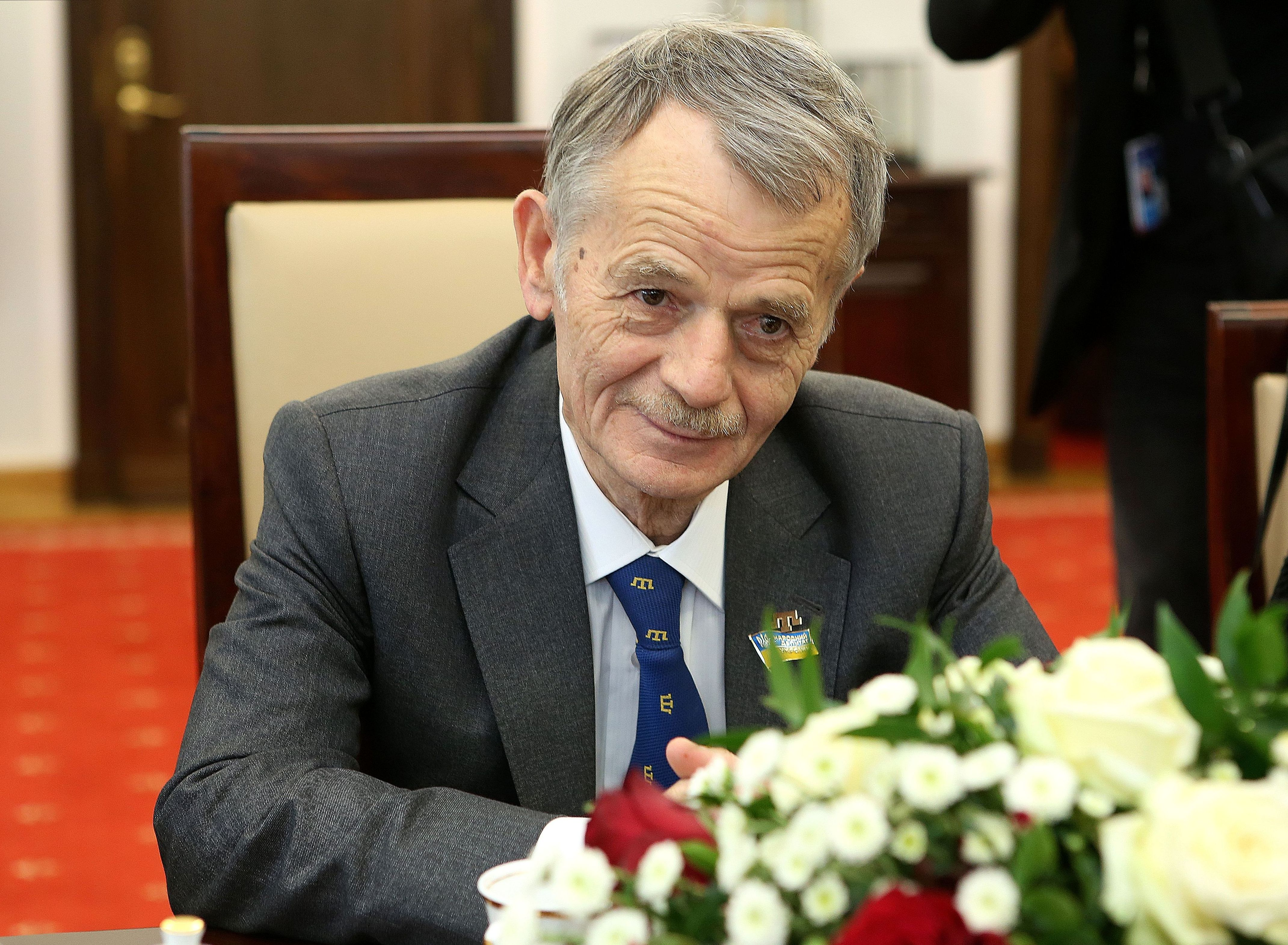 Mustafa Dzhemilev in the Polish Senate